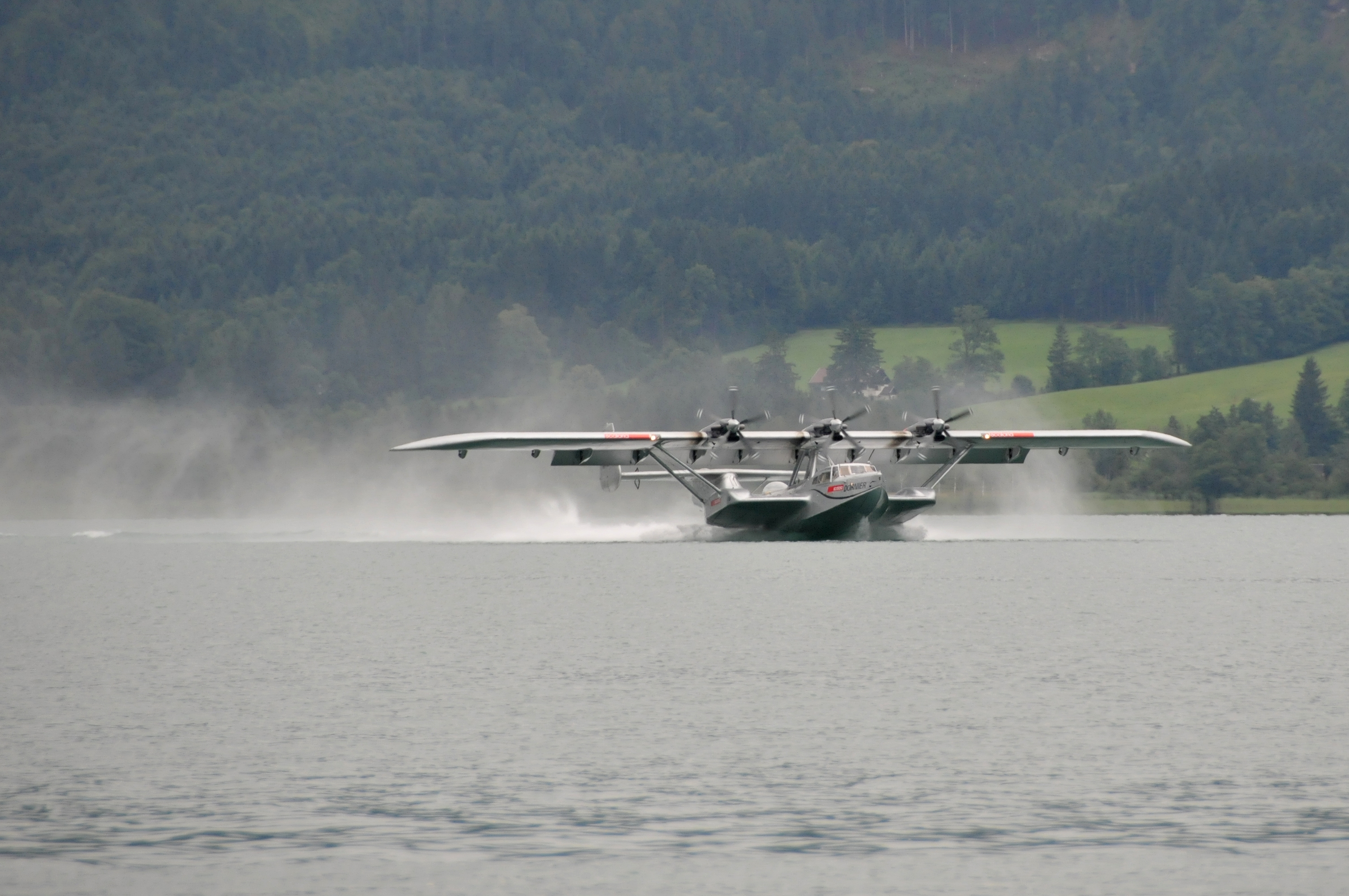 Dornier Do 24 ATT splash-down (Scalaria Air Challenge 2008)